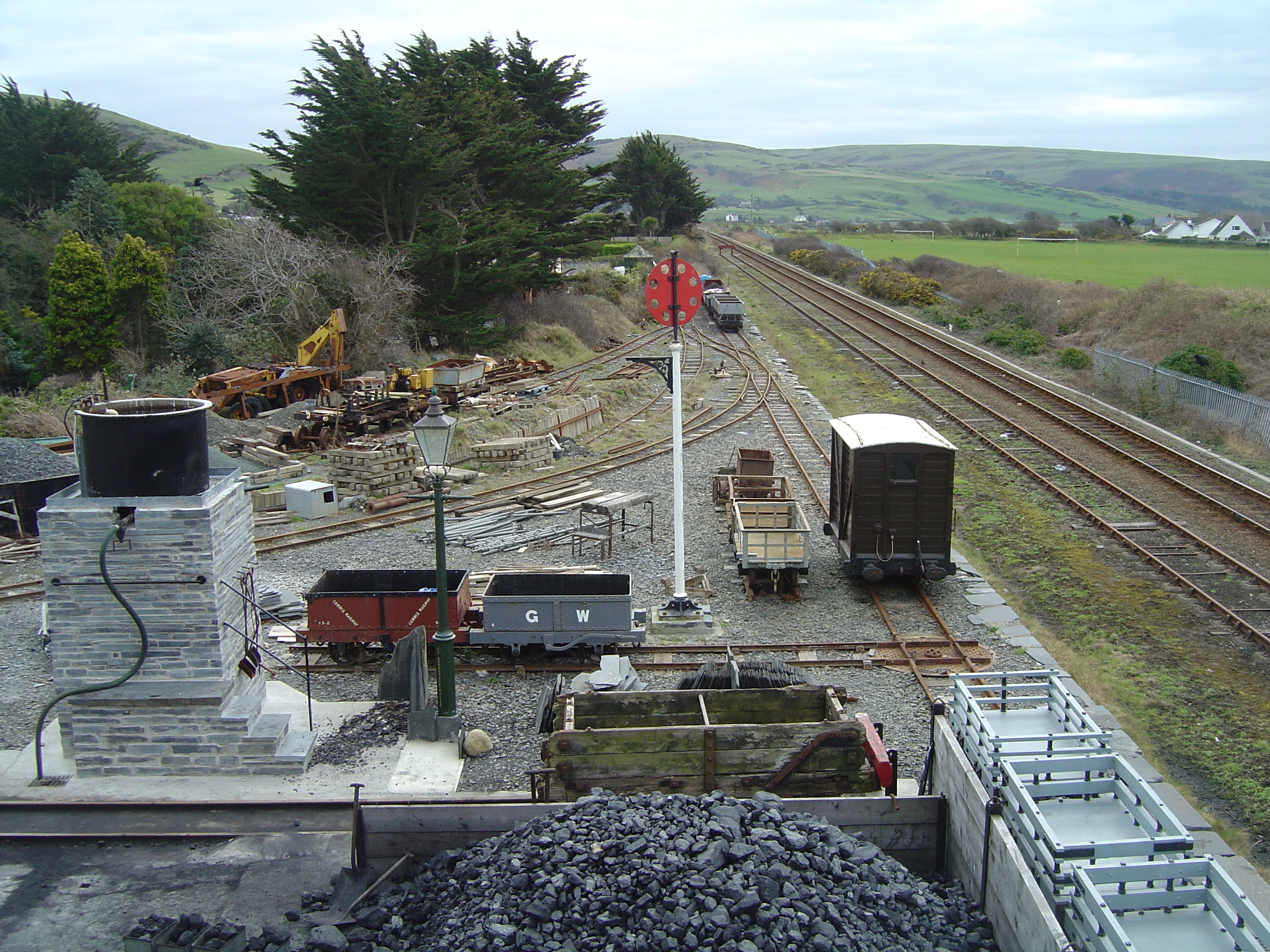 Transhipment sidings at Tywyn Wharf on the Talyllyn Railway